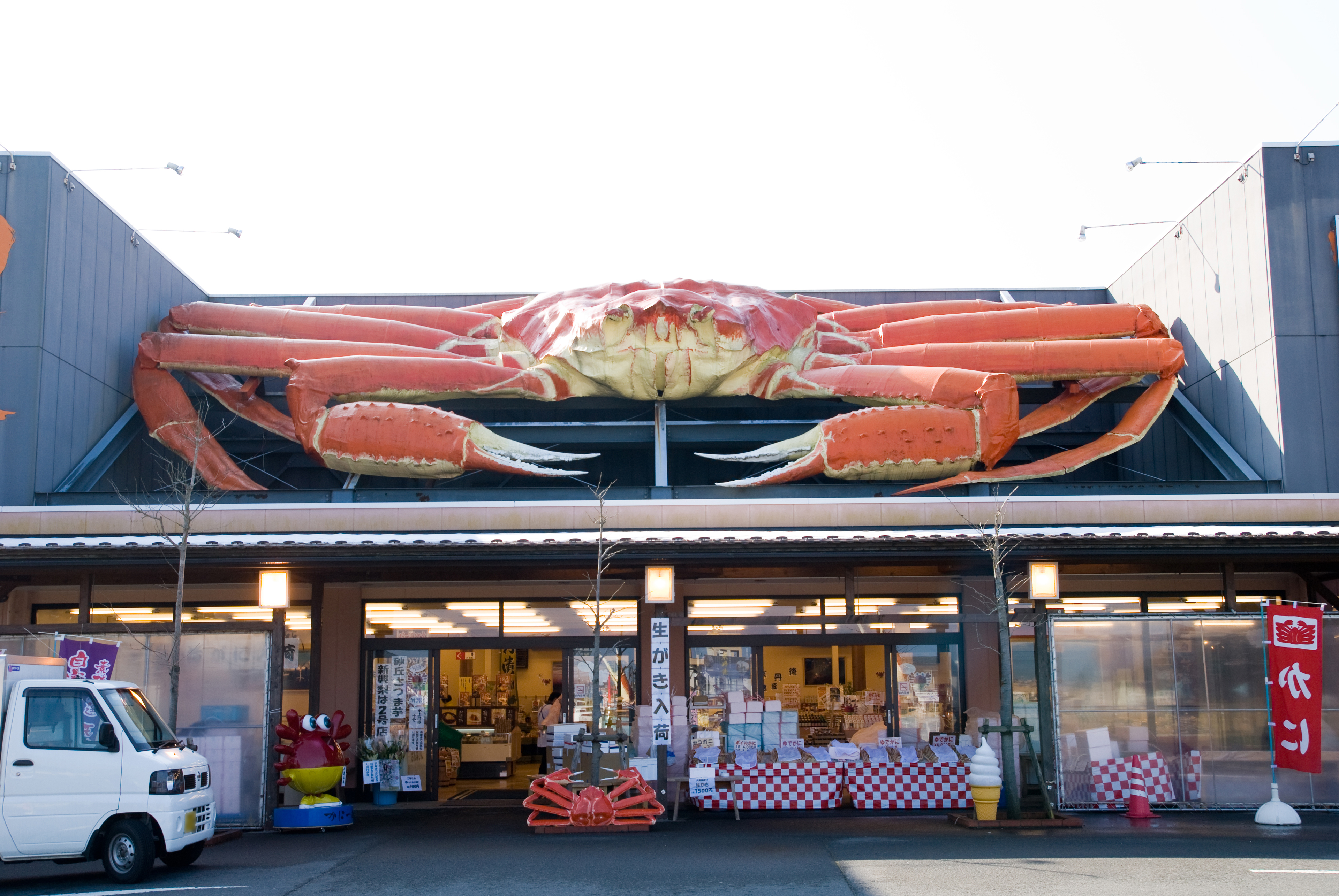 Here is crabs direct sale place.Big Crabs monument in Kumihama-cho Kyotango City Kyoto prefecture.